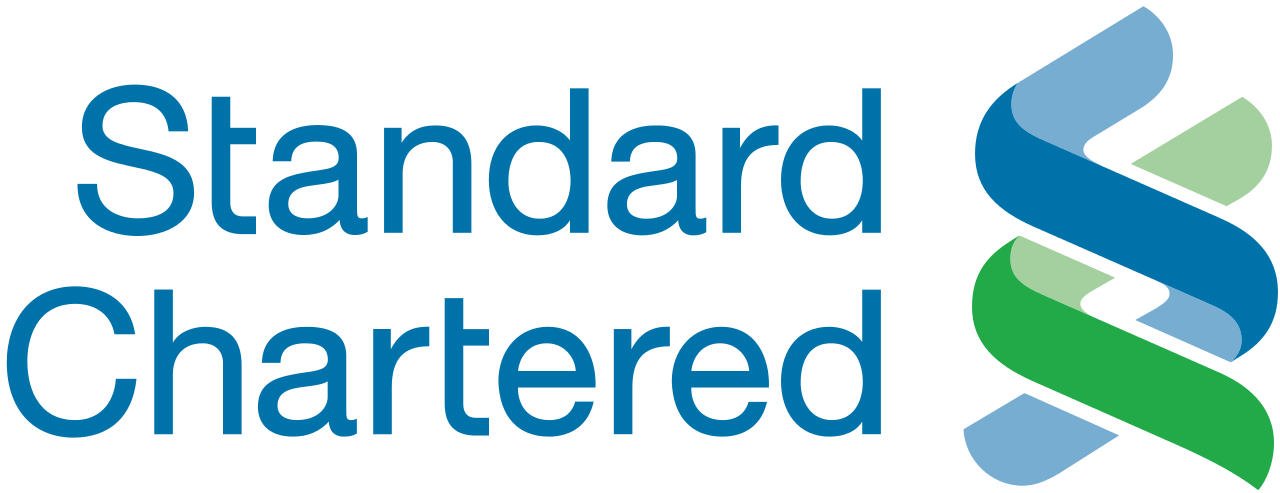 Standard Chartered logo